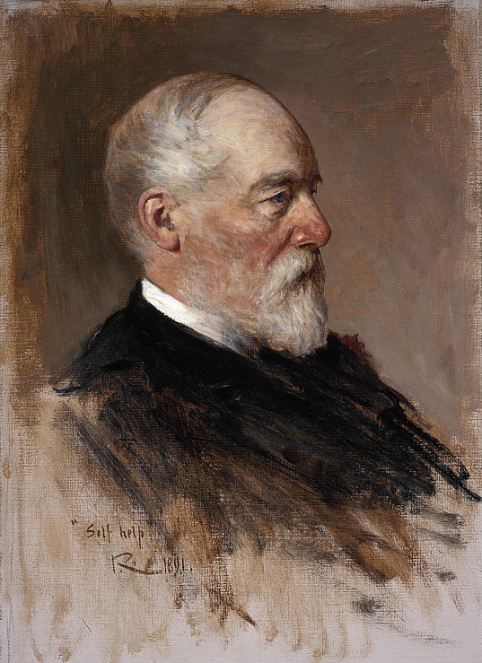 Samuel Smiles (1812-1904), Author and reformer, Oil on canvas, 34.30 x 24.80 cm